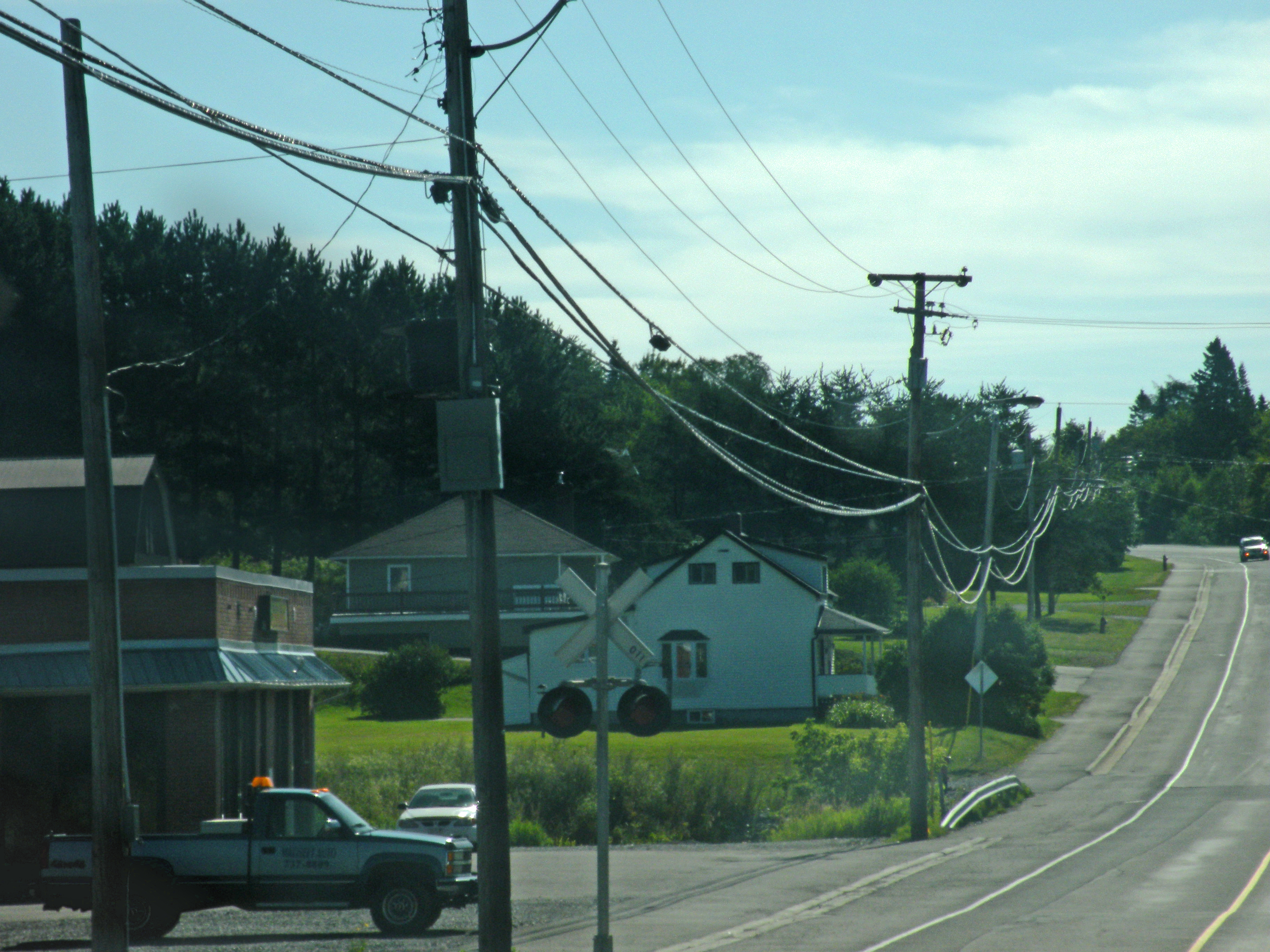 The Principale Street in Madawaska Maliseet First Nation near Edmundston, New Brunswick, Canada.